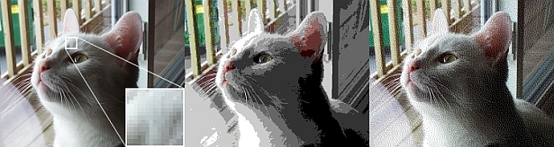 An example of color dithering. 3 Photos of cat taken and joined in the Irfanview by user:bela, earlier edited by user:Wapcaplet, and also editied by user:Riumplus From:en:user:jamelan;Image:Dithering example dithered web palette.png From:en:user:jamelan;Image:Dithering example undithered web palette.png From:en:user:jamelan;Image:Dithering example dithered 16color.png